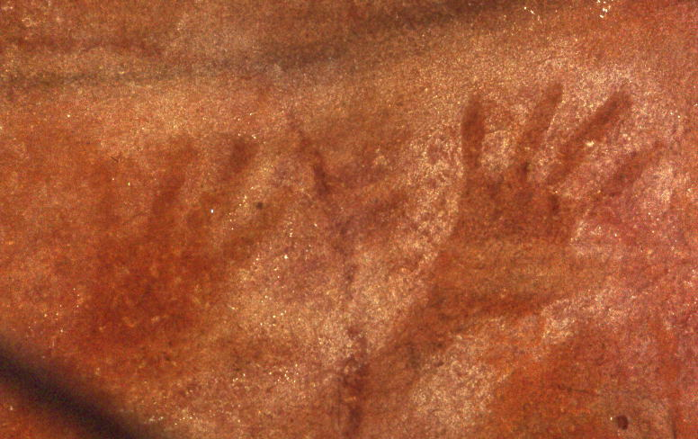 Aboriginal hand stencils in Red Hands Cave, Blue Mountains NP, near Glenbrook, NSW, Australia (Kodachrome slide scanned at 6400)